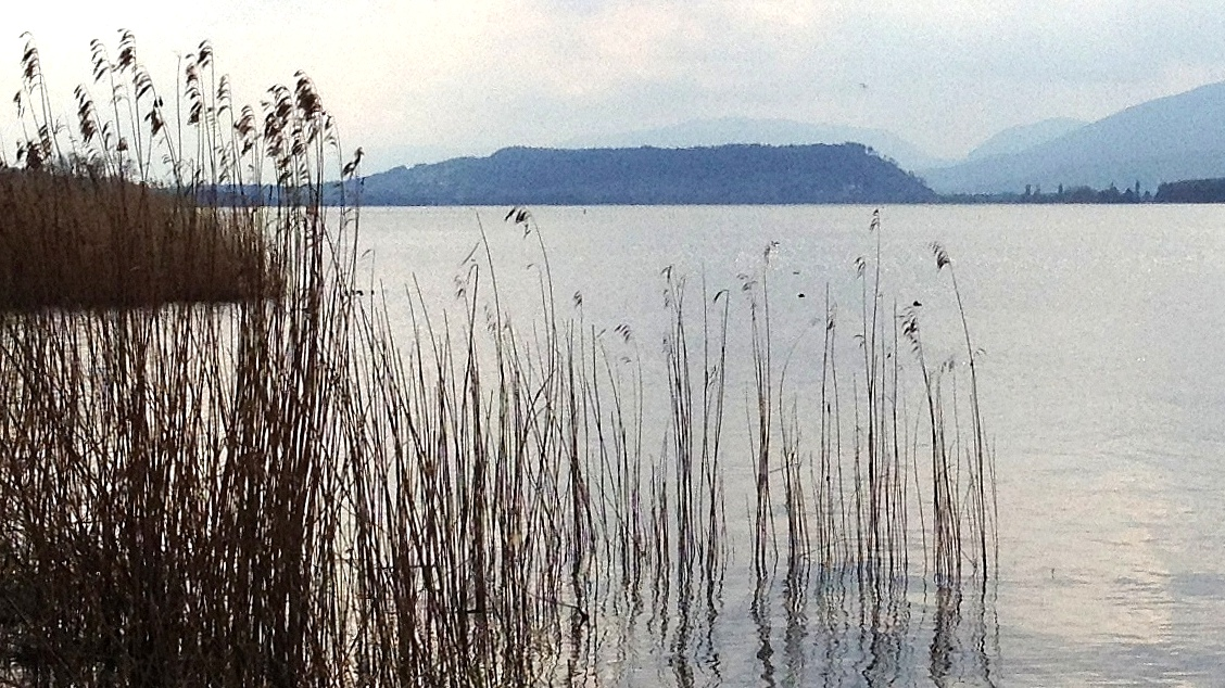 Jolimont hill. A distant view (seen from Lake Biel near Gerolfingen)